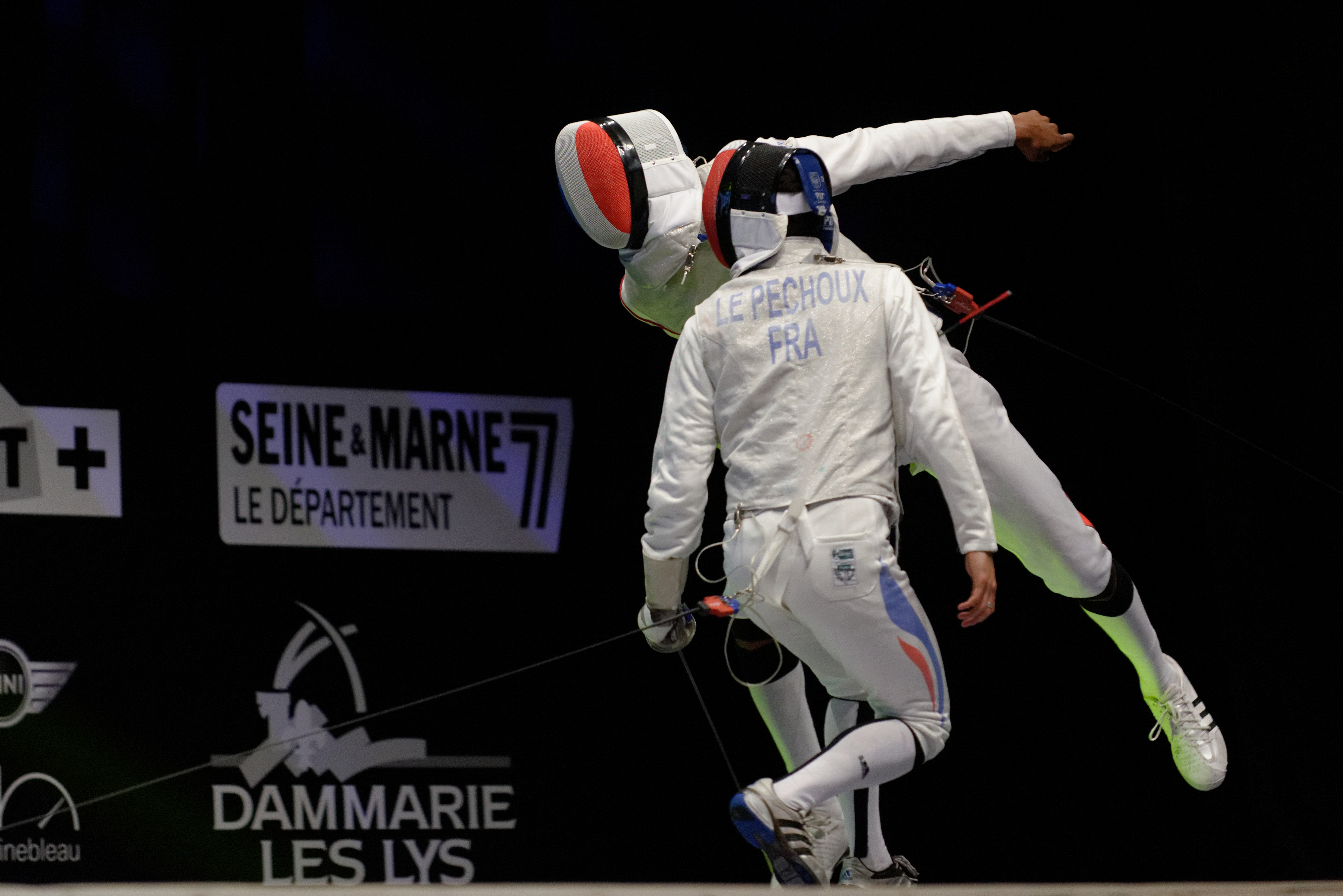 Erwann Le Péchoux (L) v Enzo Lefort (R), final of the Master de fleuret 2013 in Dammarie-les-lys, France.